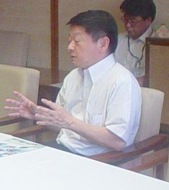 Governor of Tottori Yoshihiro Katayama(片山善博).